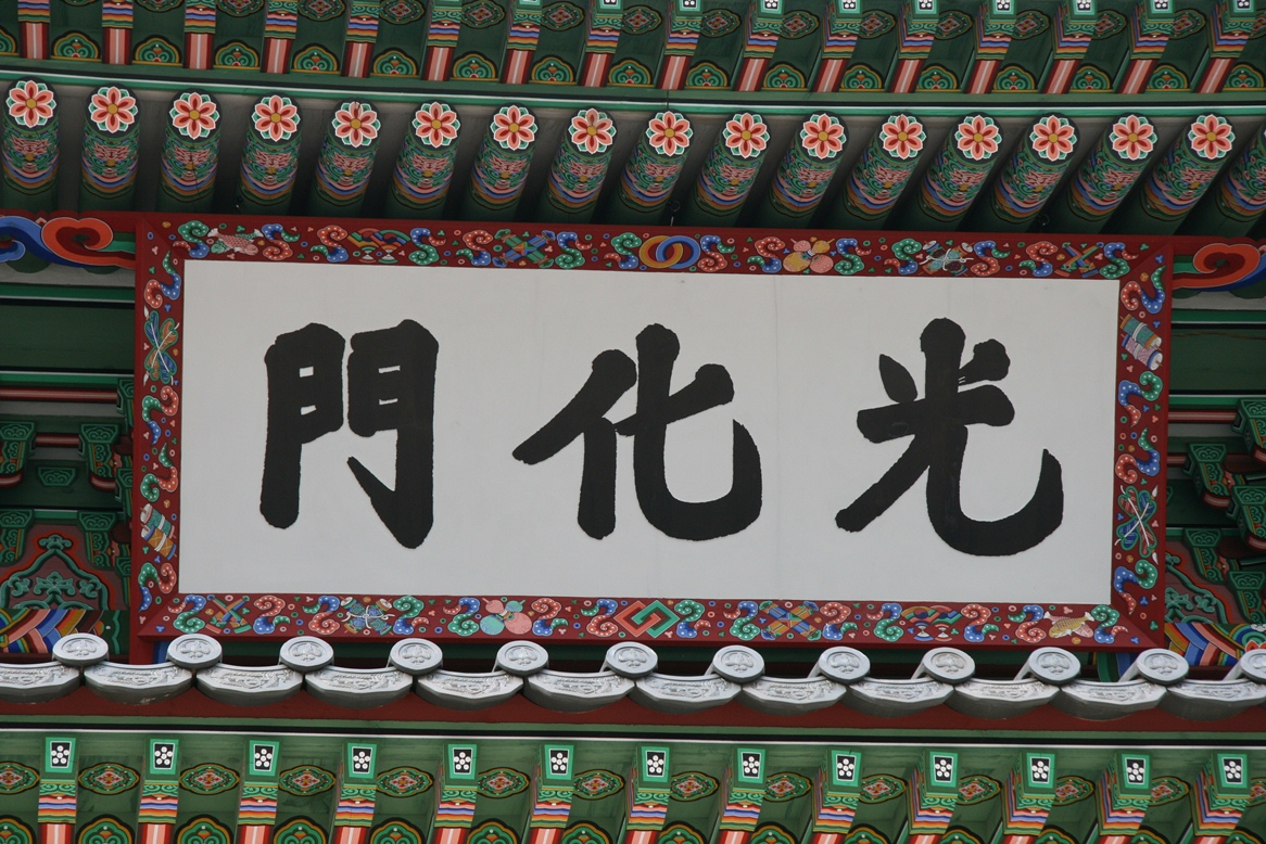 Gwanghwamun wooden name plate in Hanja in 2012